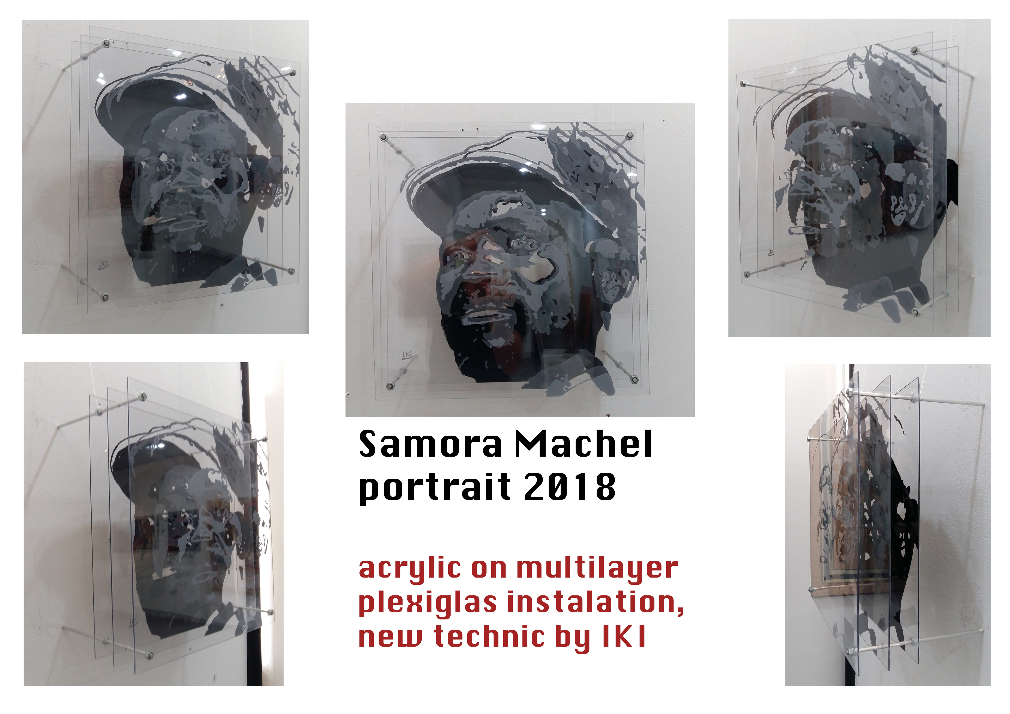 acrylic on multi layer plexiglass portrait